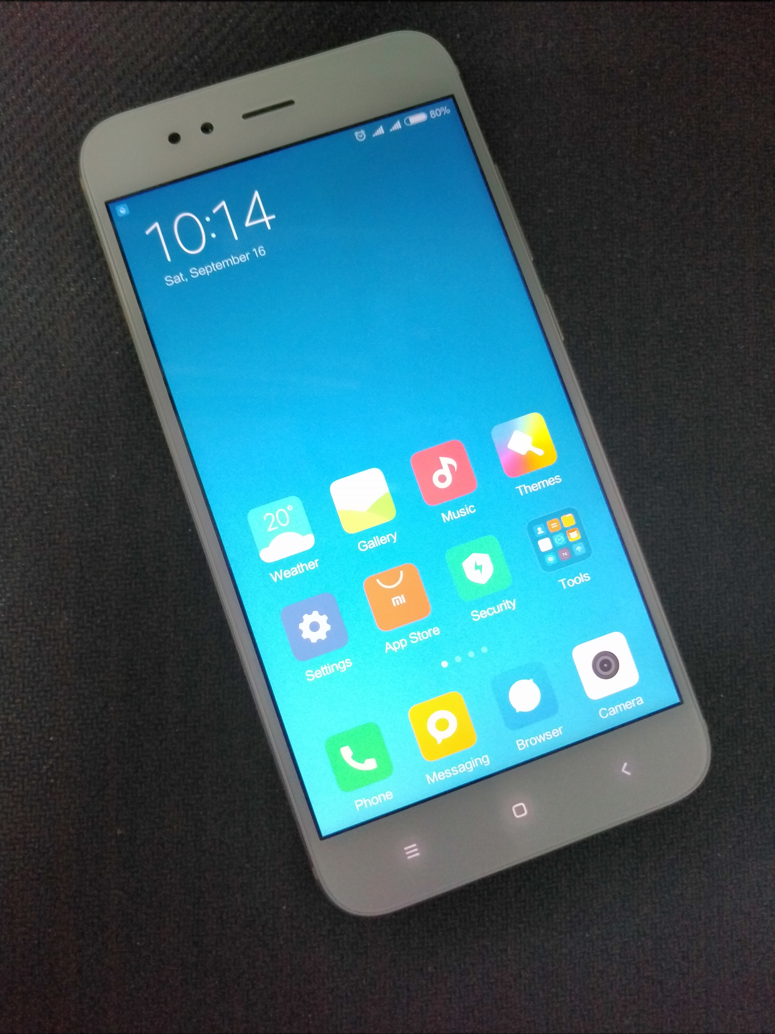 Home screen of Xiaomi Mi 5X